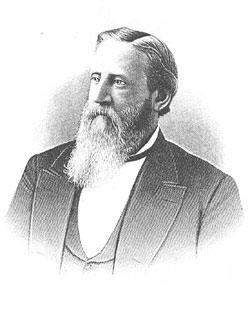 William Dunlap Simpson (1823–1890), Governor of South Carolina.